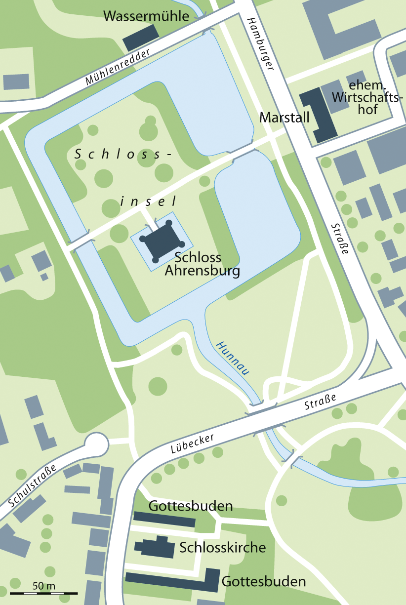 Map of Ahrensburg Castle